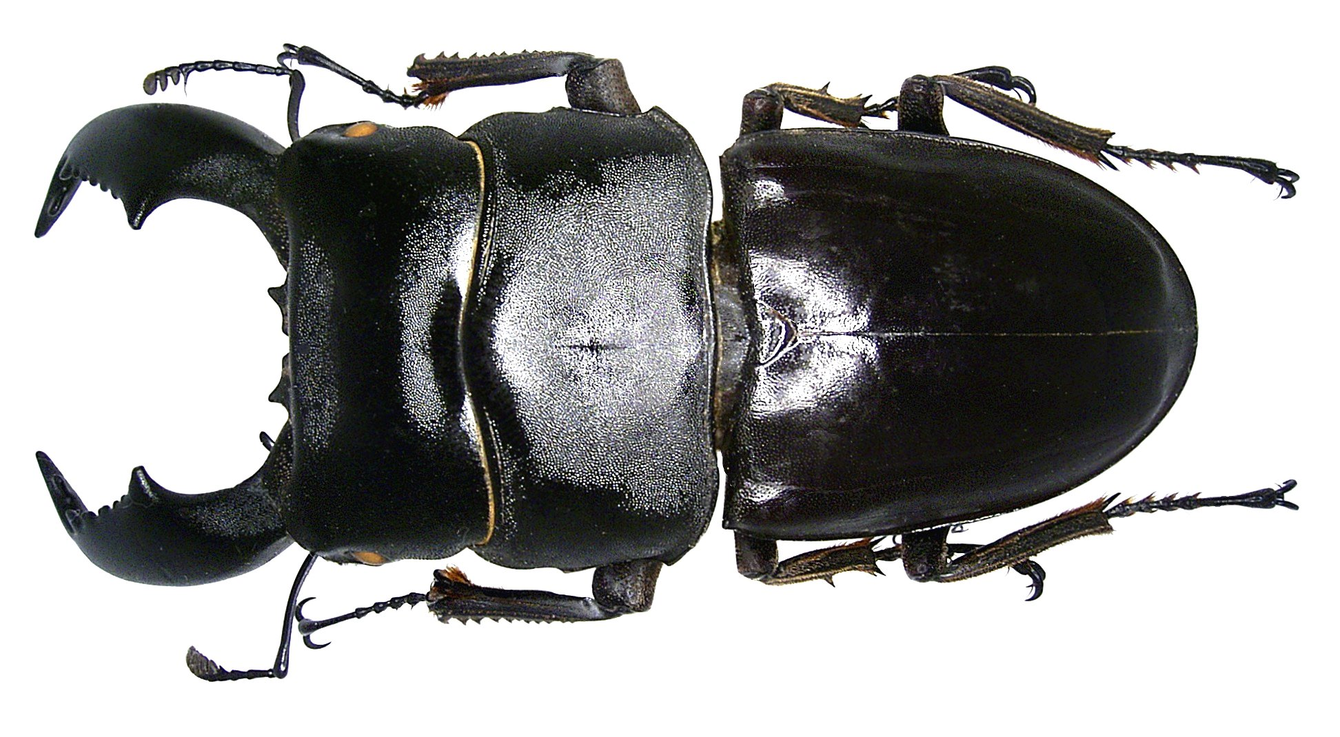 Family: Lucanidae Size: 32 to 100.5 mm Distribution: Indonesia, Malaysia, Philippines Location: Indonesia, Sumatra, 2006 det. A.Skale, 2006 Photo: U.Schmidt, 2006